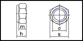 Steel nut DIN 985